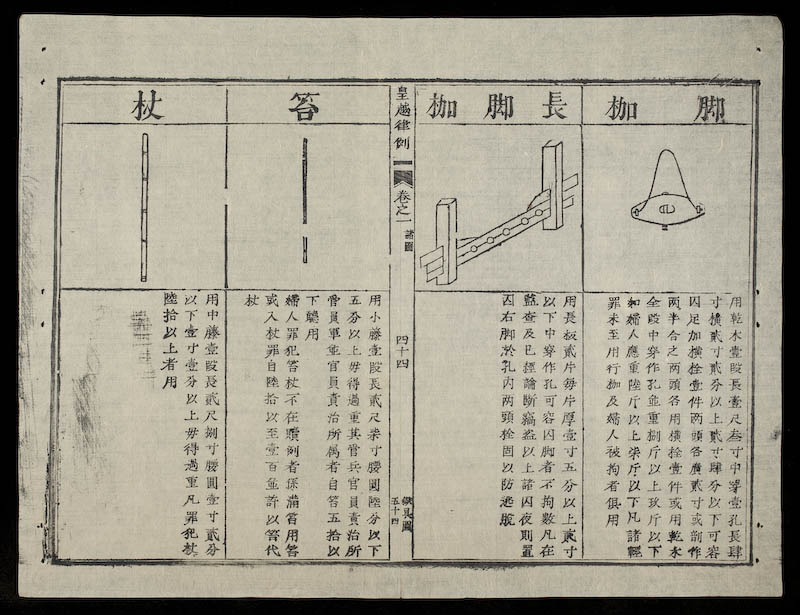 Torturing instruments in Gia Long Code, Nguyen Dynasty.